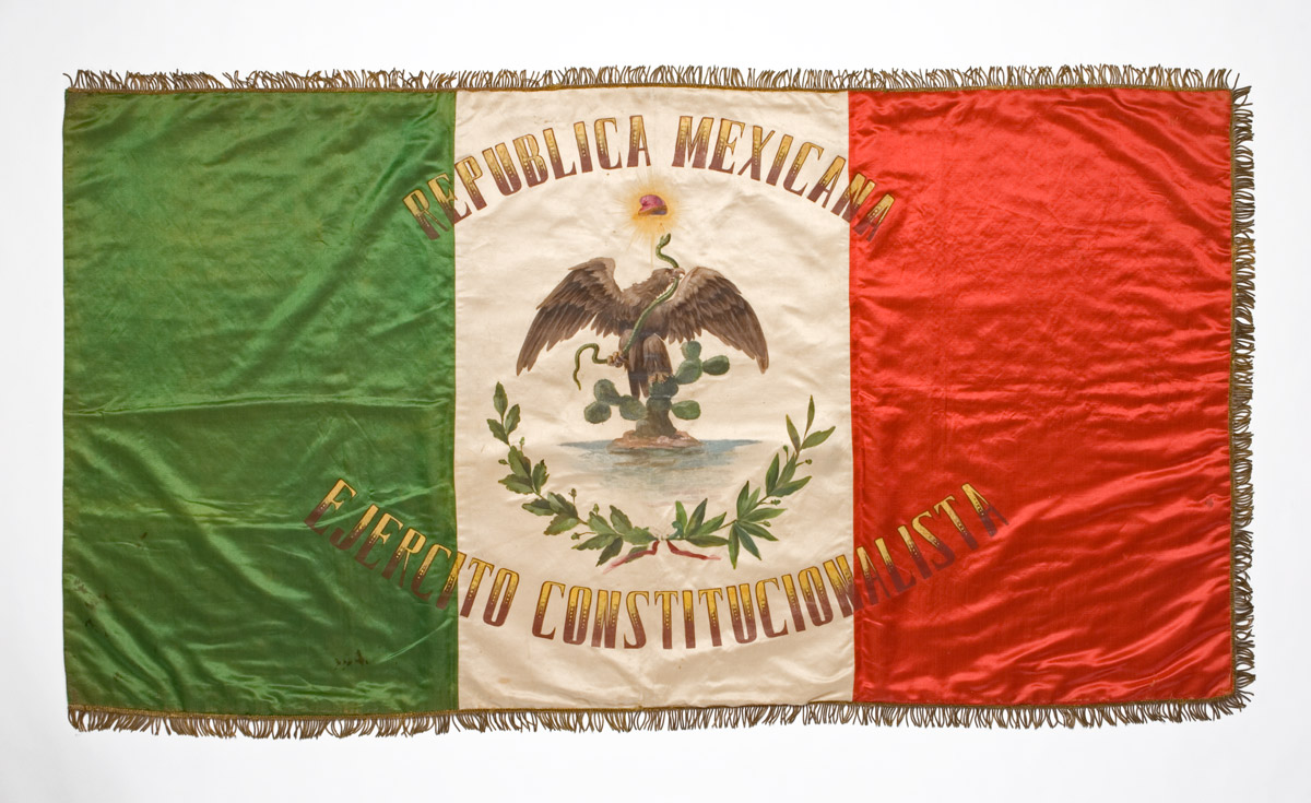 Flags of Mexican Constitutionalist Army